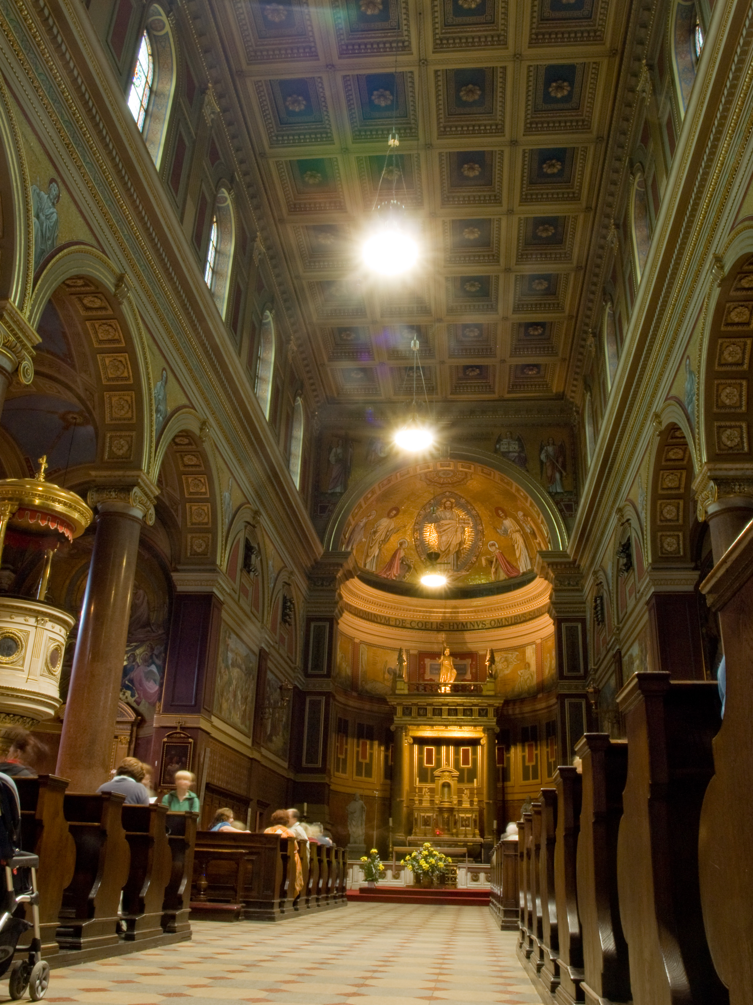 Church of Saint Wenceslaus, Smíchov